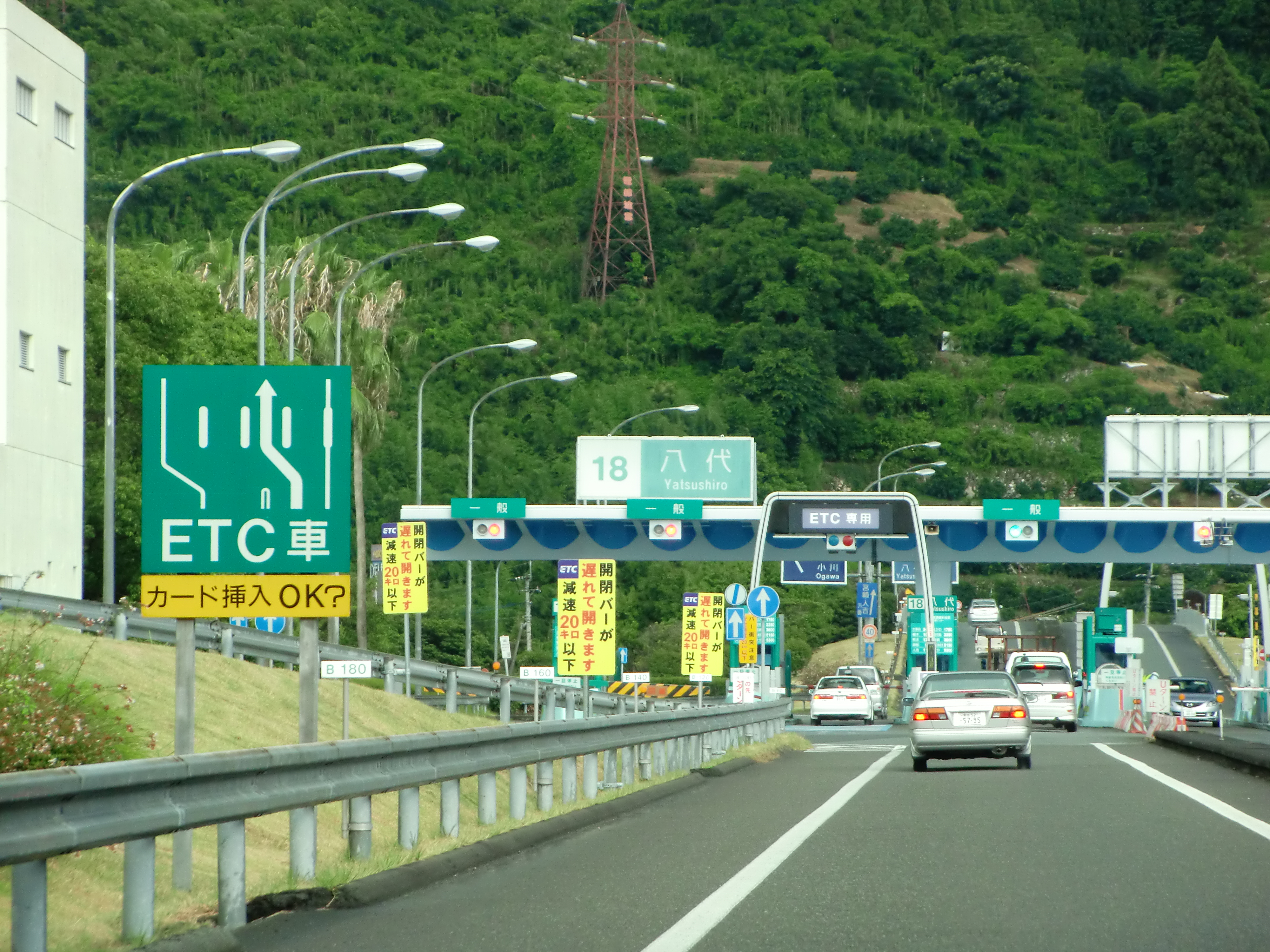 Yatsushiro Interchange